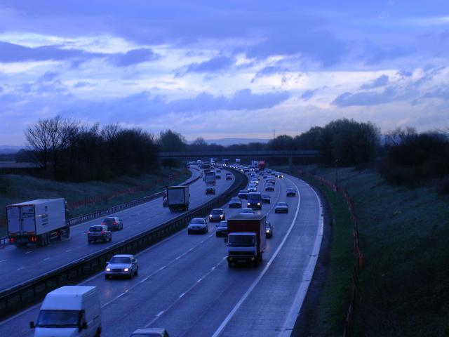 M62 , looking east. Irlam, Manchester